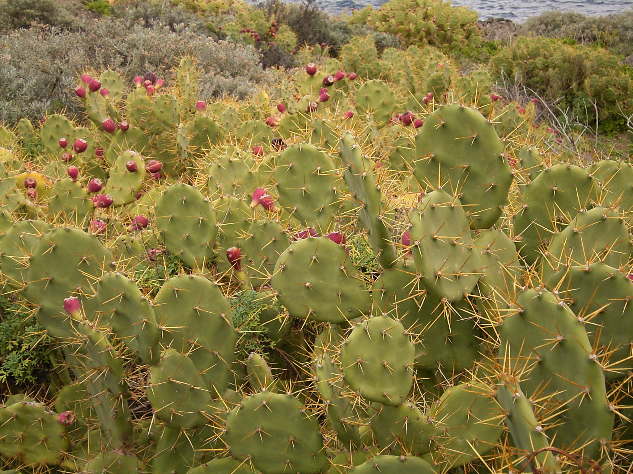 Opuntia dillenii growing in San Andrés y Sauces, La Palma, Canary Islands